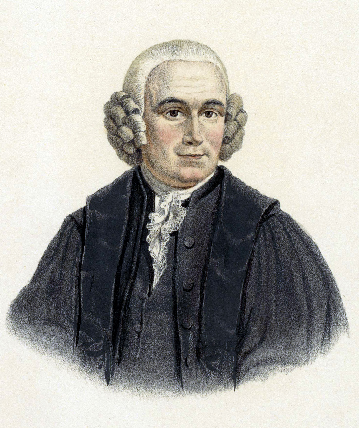 Eduard Sandifort (1742-1814) Dutch physician